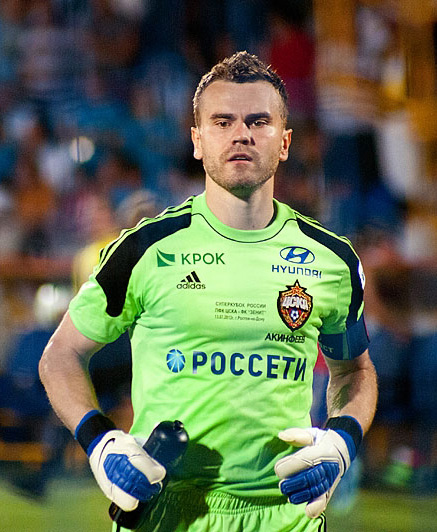 Igor Akinfeev (CSKA Moscow) during 2013 Russian Super Cup